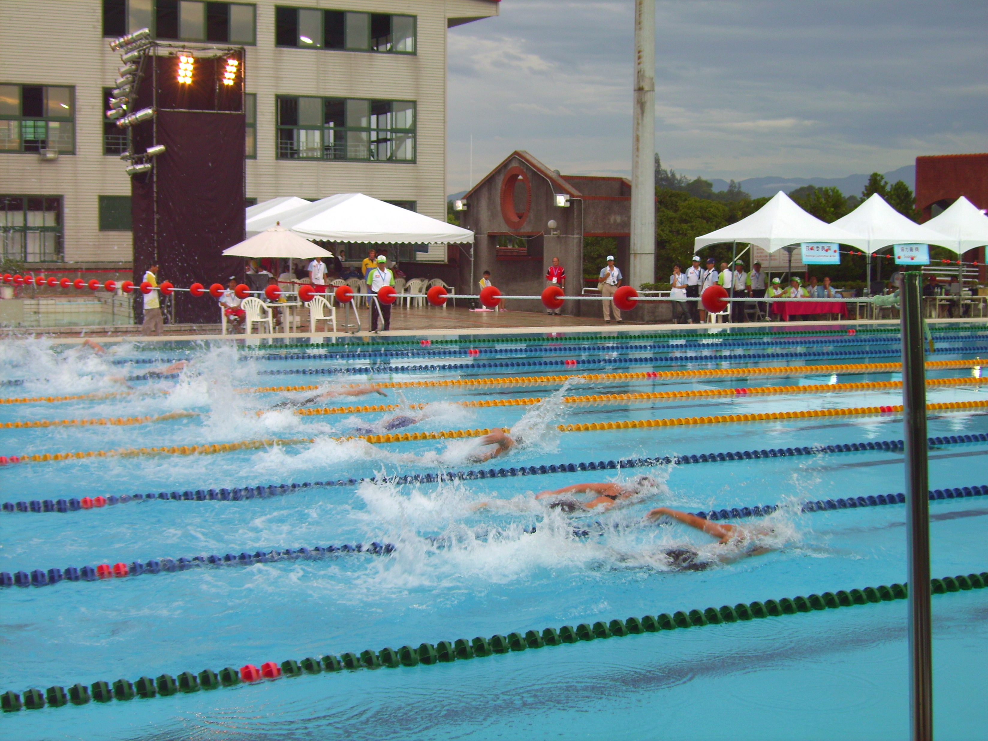 2007 World Deaf Swimming Championships: Women 50m Freestyle.